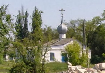 Saint Elijah church in Chonhar, Kherson Oblast, Ukraine